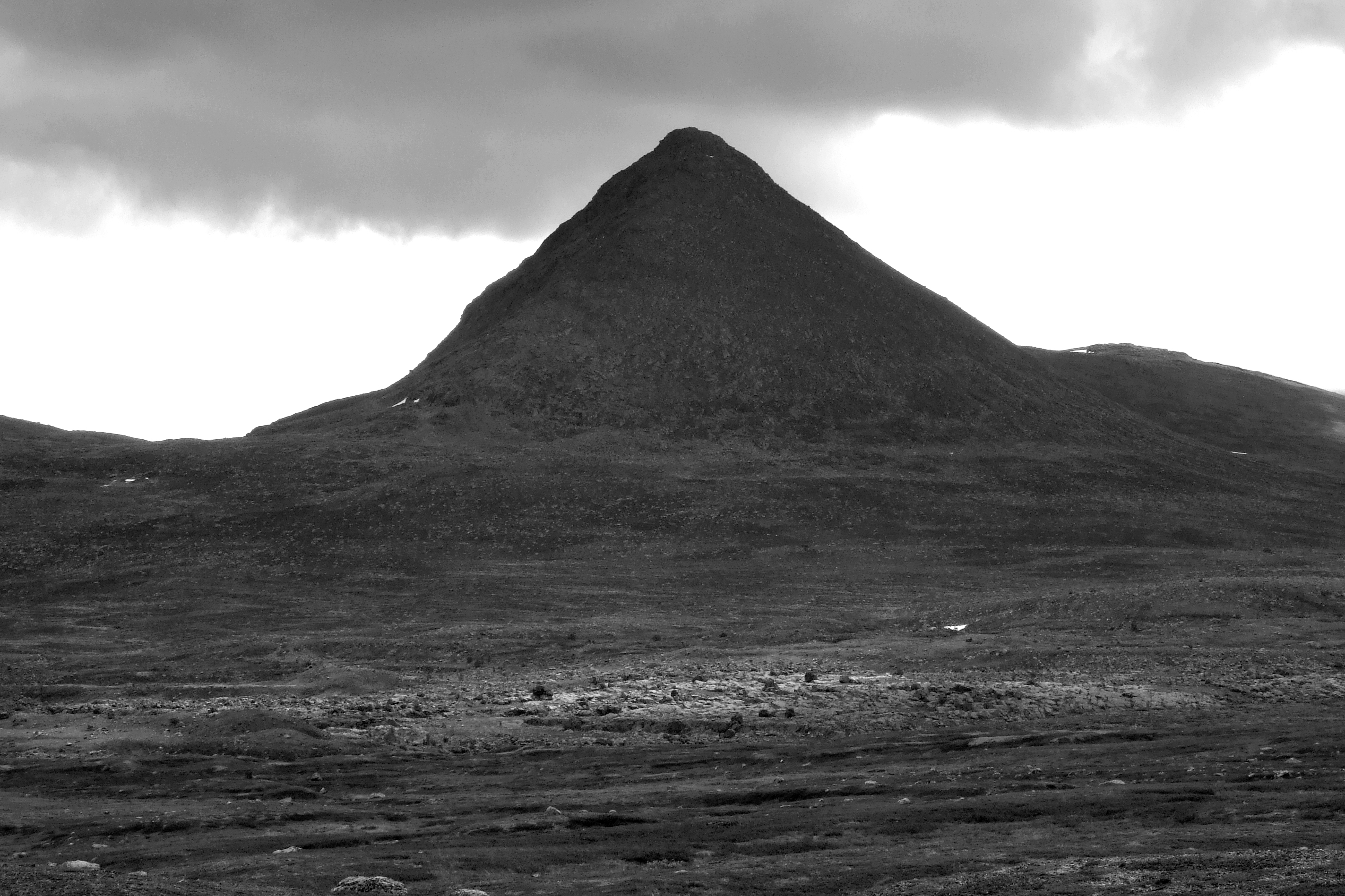 Mount Slugga in Sweden close to Sarek National Park.